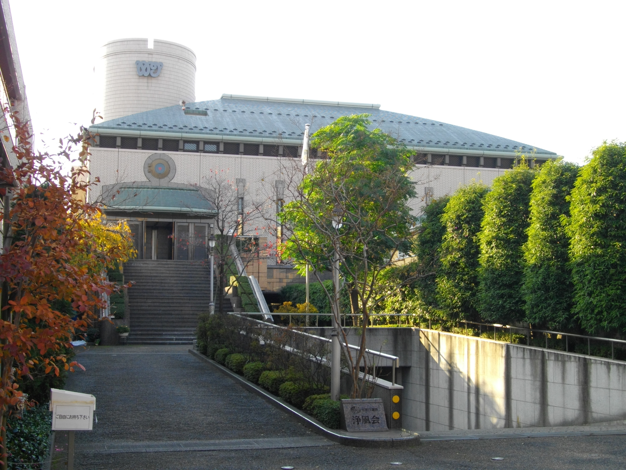 Zaike Nichirenshu Jofukai Headquarters